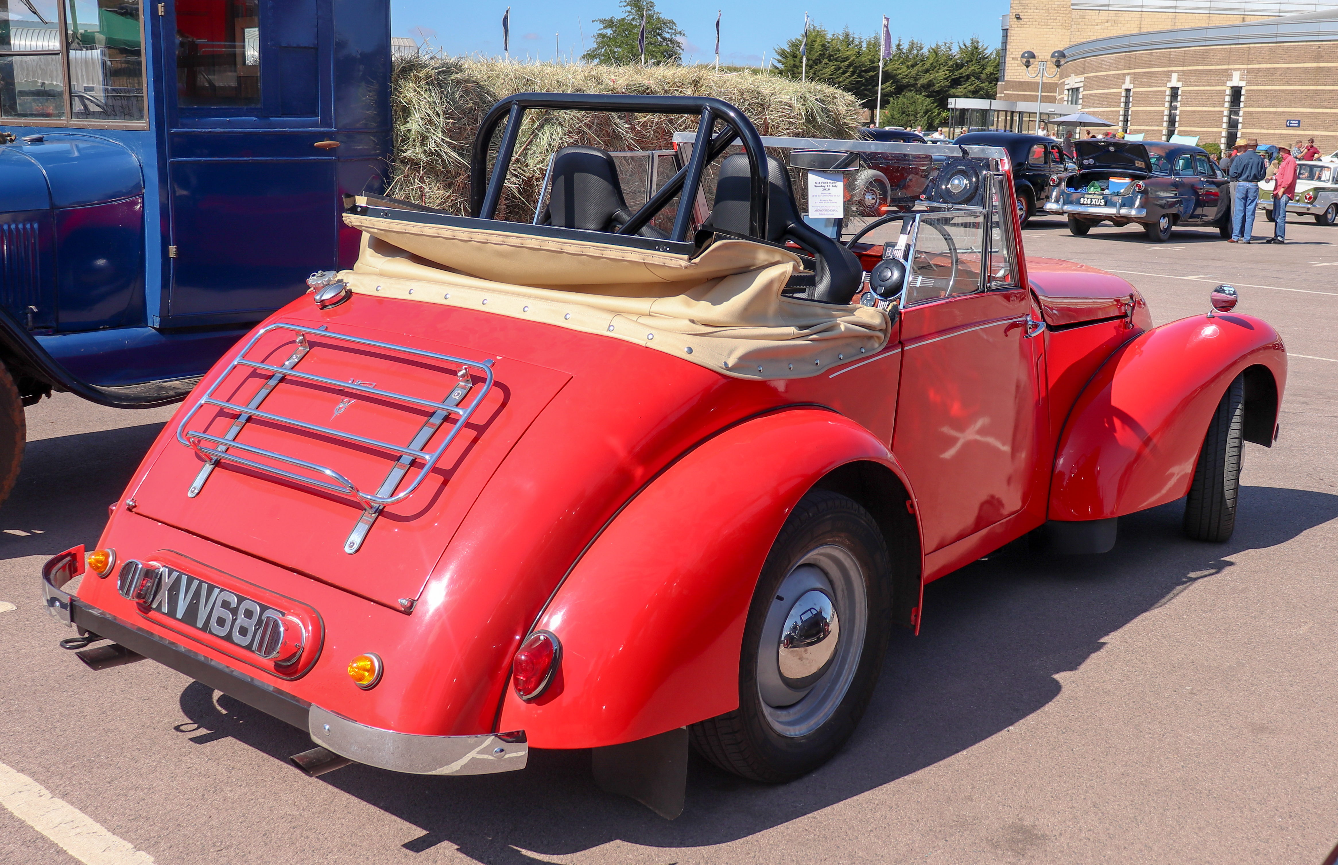 1948 Allard M-type 3.9 Rear Taken at the British Motor Museum Old Ford Rally 2018, Gaydon